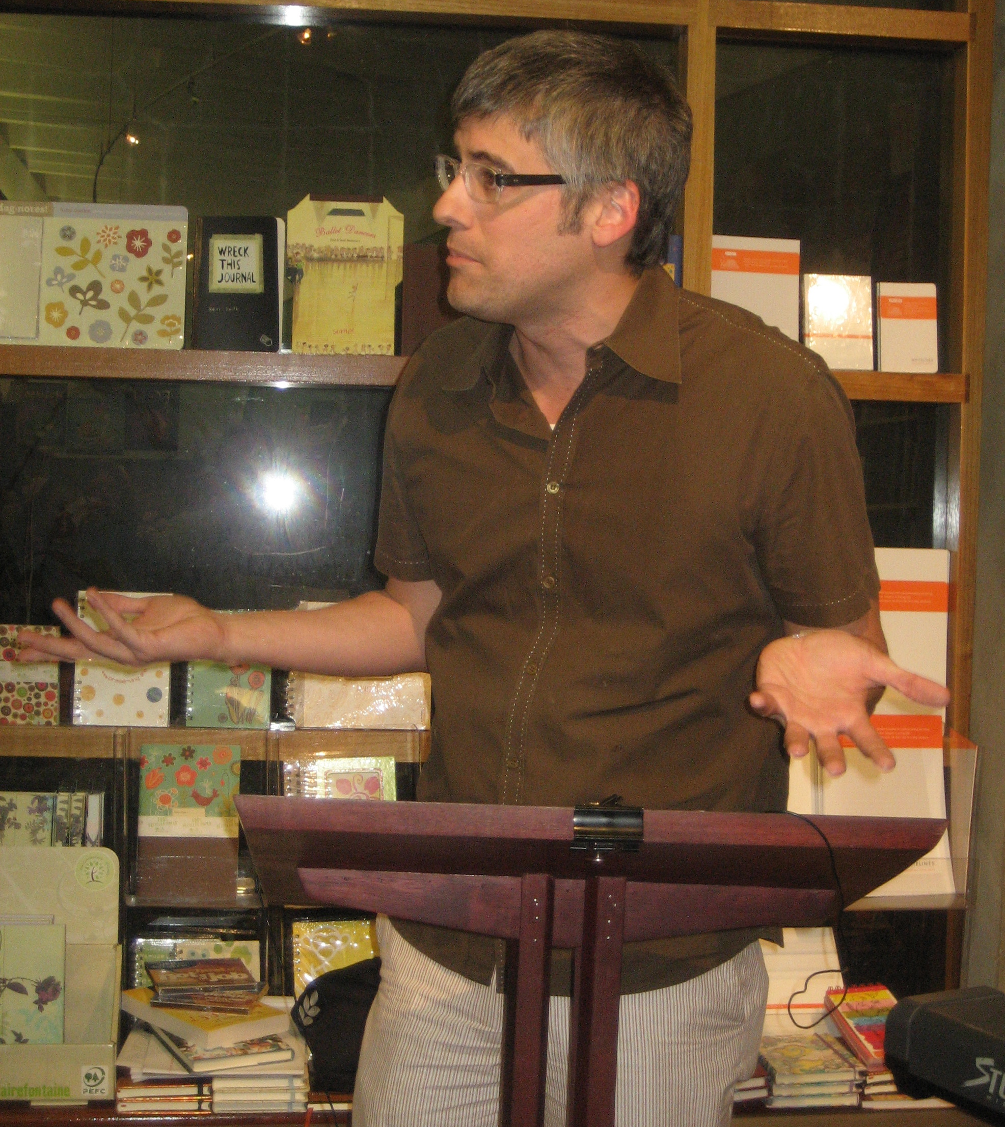 Reception for panelists of National Public Radio show "Wait Wait... Don't Tell Me" at Octavia Books, Uptown New Orleans. Mo Rocca.